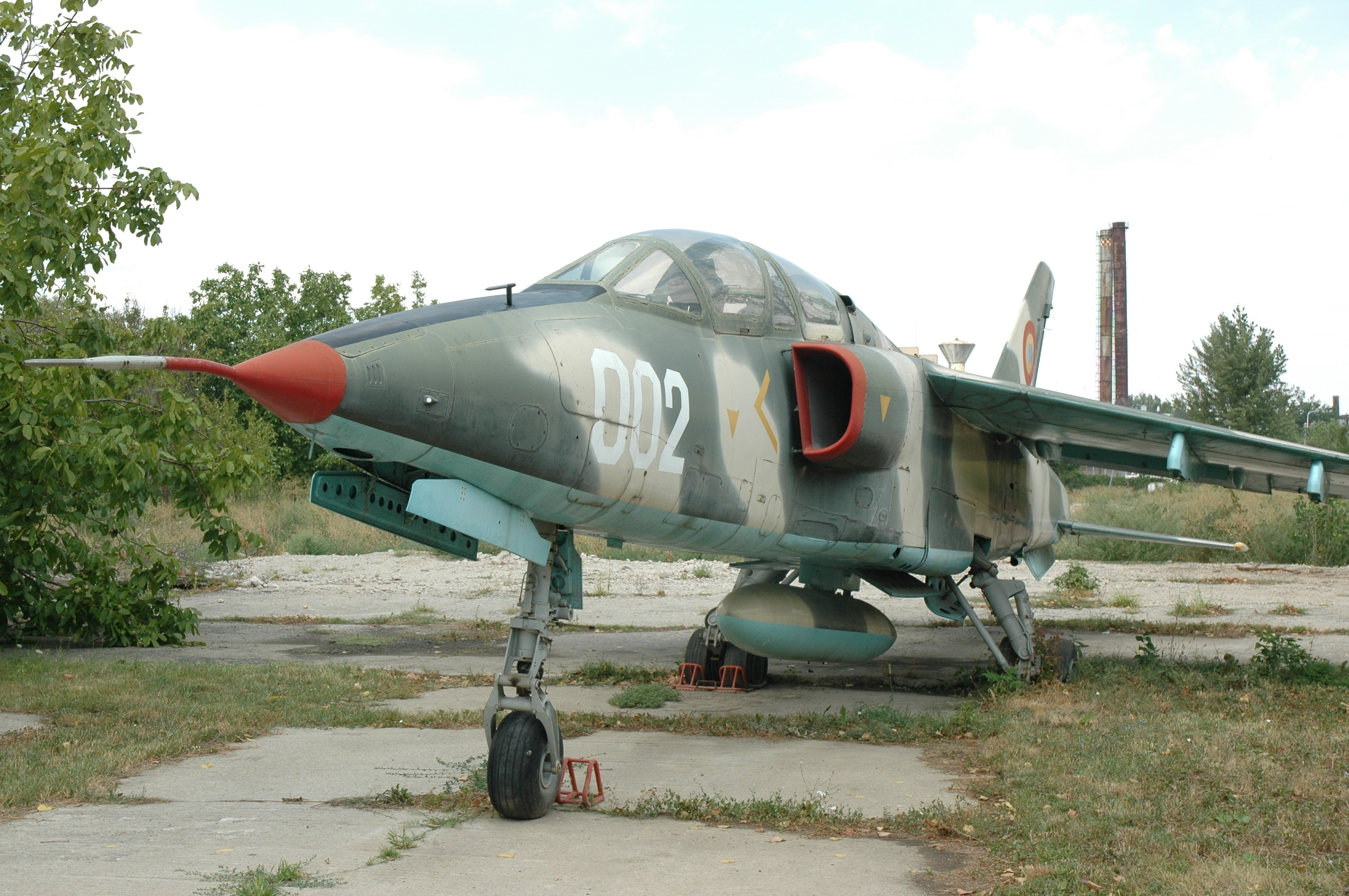 Prototype of Romanian IAR 93DC ground attack aircraft, displayed at the National Museum of Romanian Aviation in Bucharest